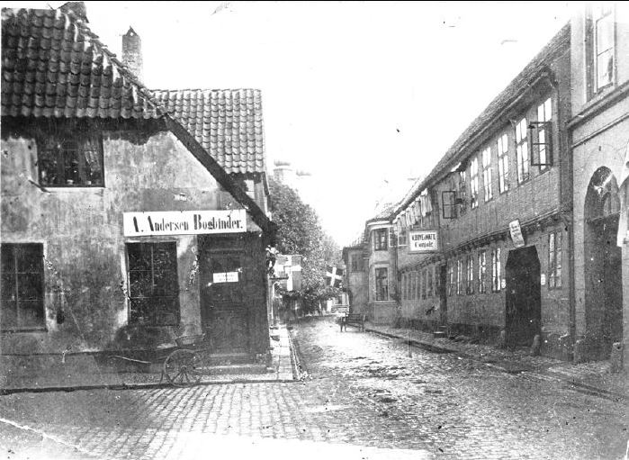 Skolegade set fra Kannikegade